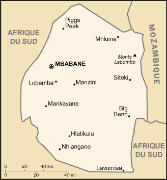 Map in French of Eswatini